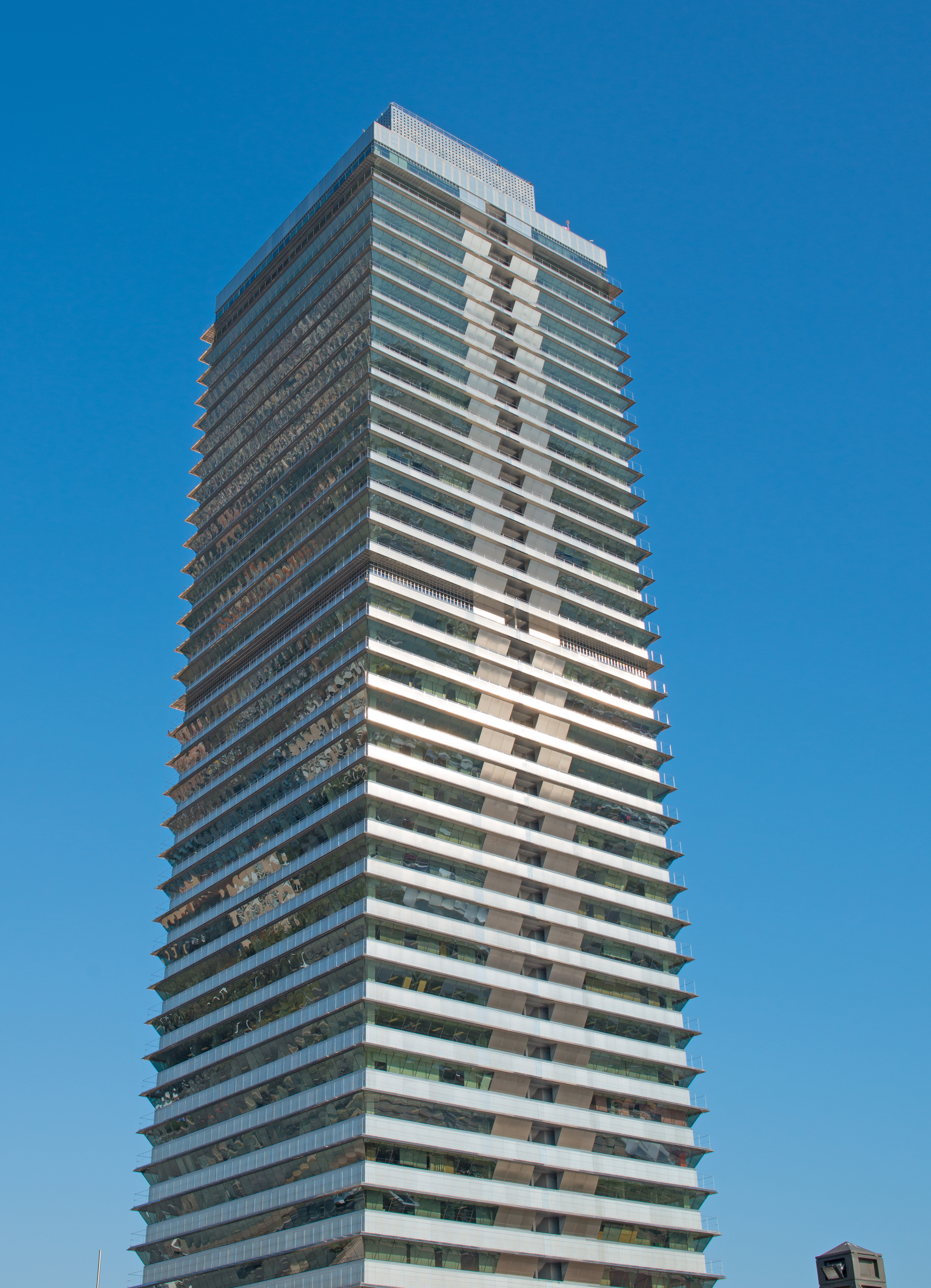 Barcelona Spain February 2013